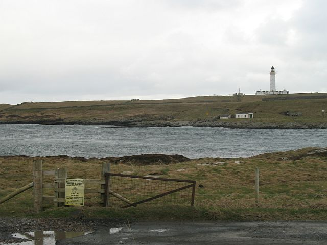 Orsay, seen from Port Wemyss in the Rhinns of Islay, Scotland, the lighthouse on the high ground in the middle of the island